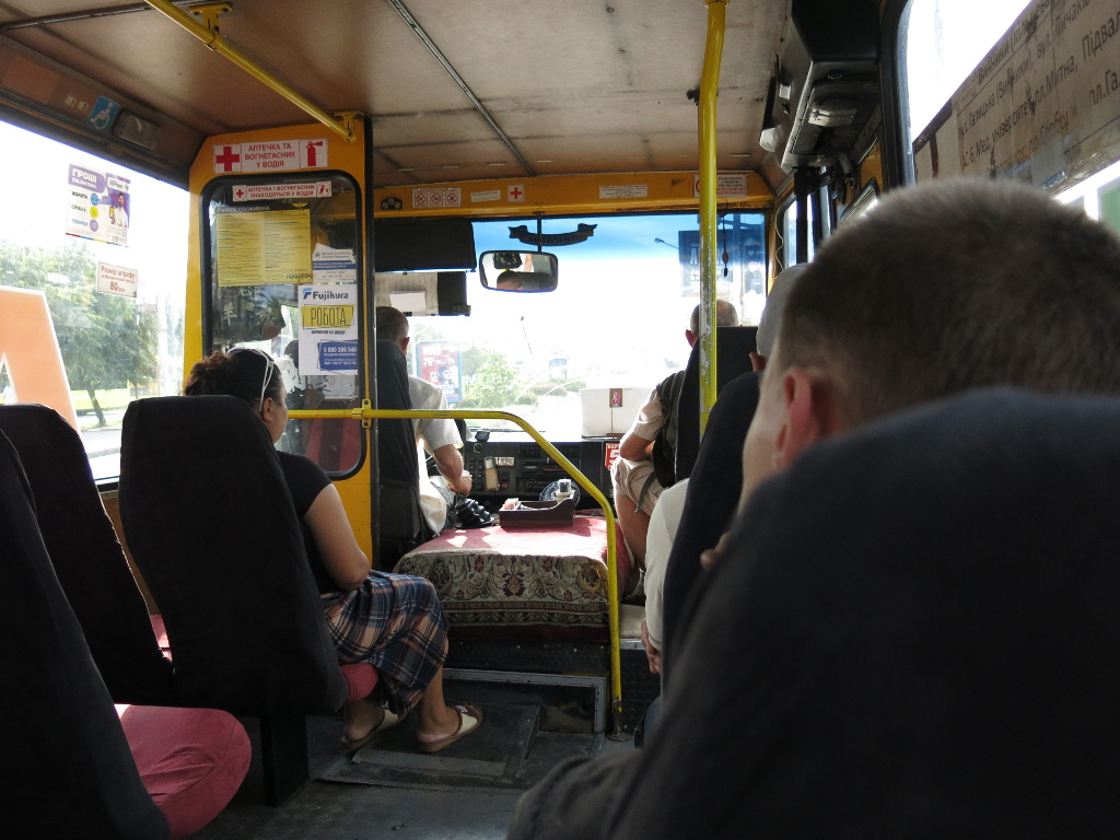 Inside a Marshrutka in Lviv. Each trip would cost 5 hryvnia.